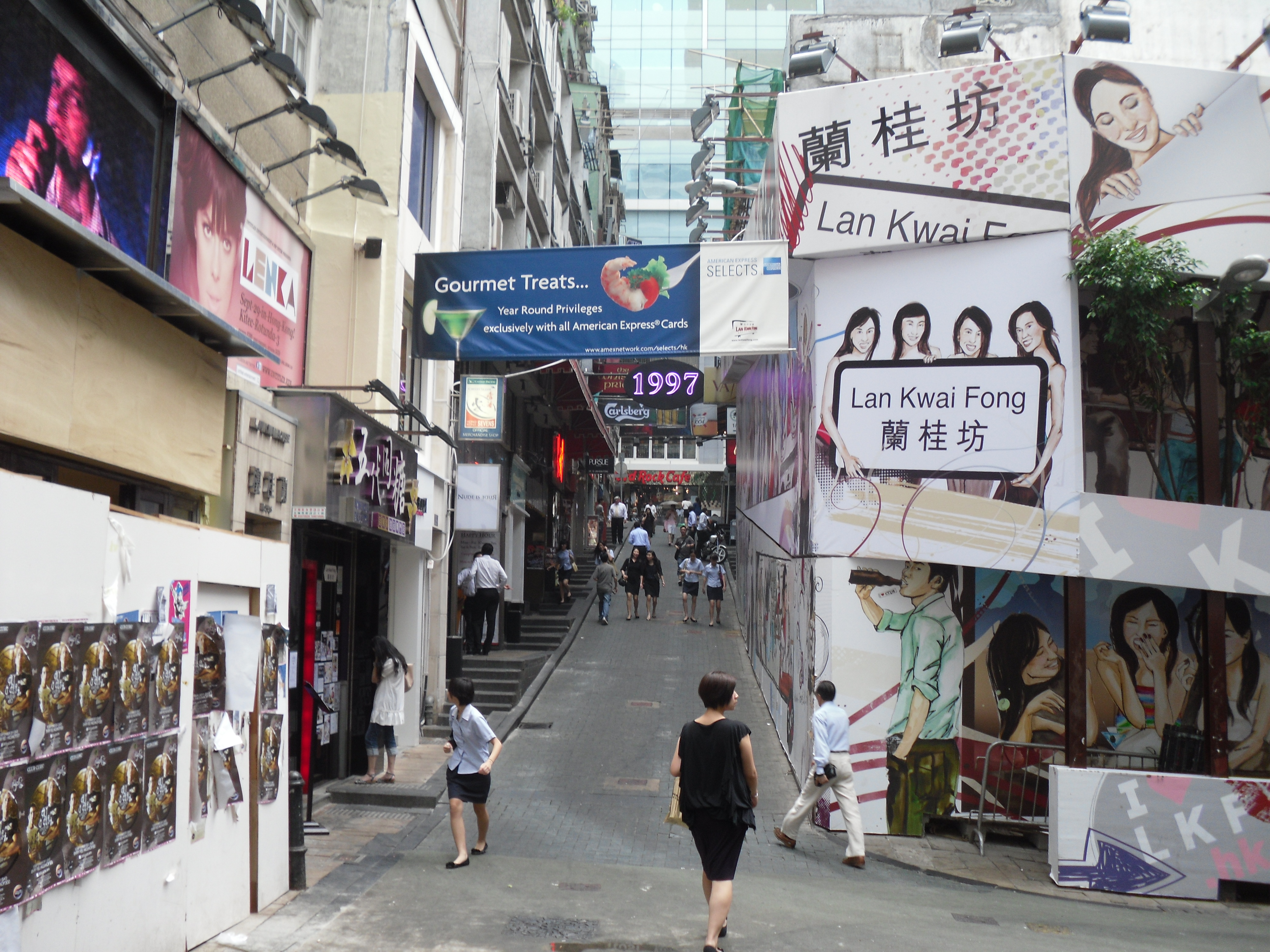 Lan Kwai Fong during the day